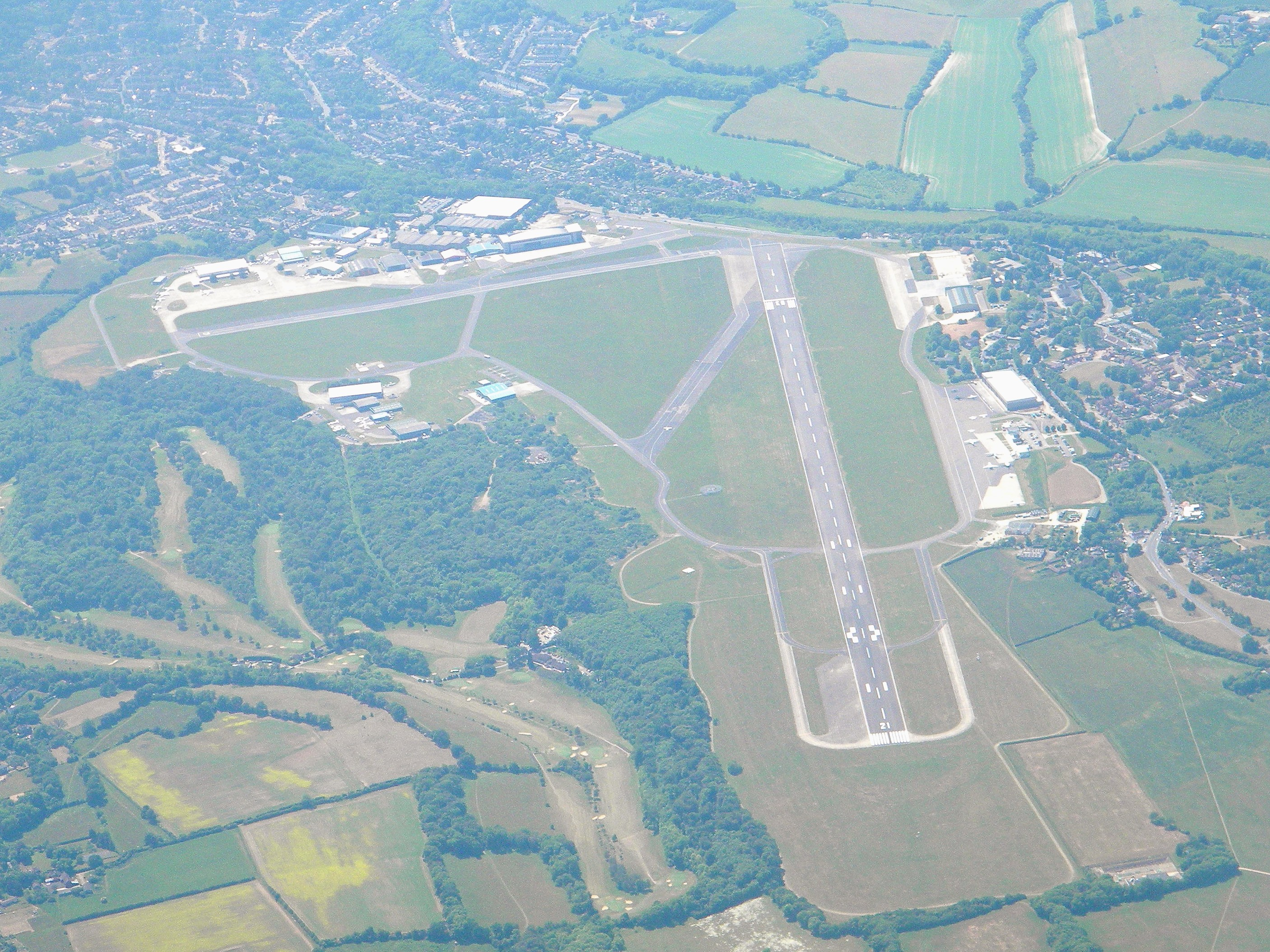 Aerial view of the London Biggin Hill Airport